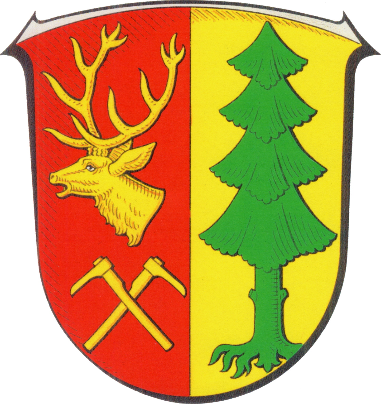 Coat of Arms of Heidenrod